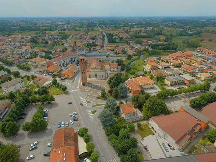 Top View of San Giorgio delle Pertiche